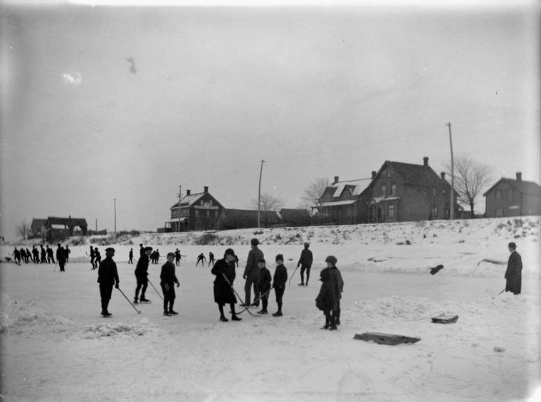 "Hockey on the [Rideau] Canal [Christmas Day 1901]." 25 Dec. 1901 / Ottawa, Ont.